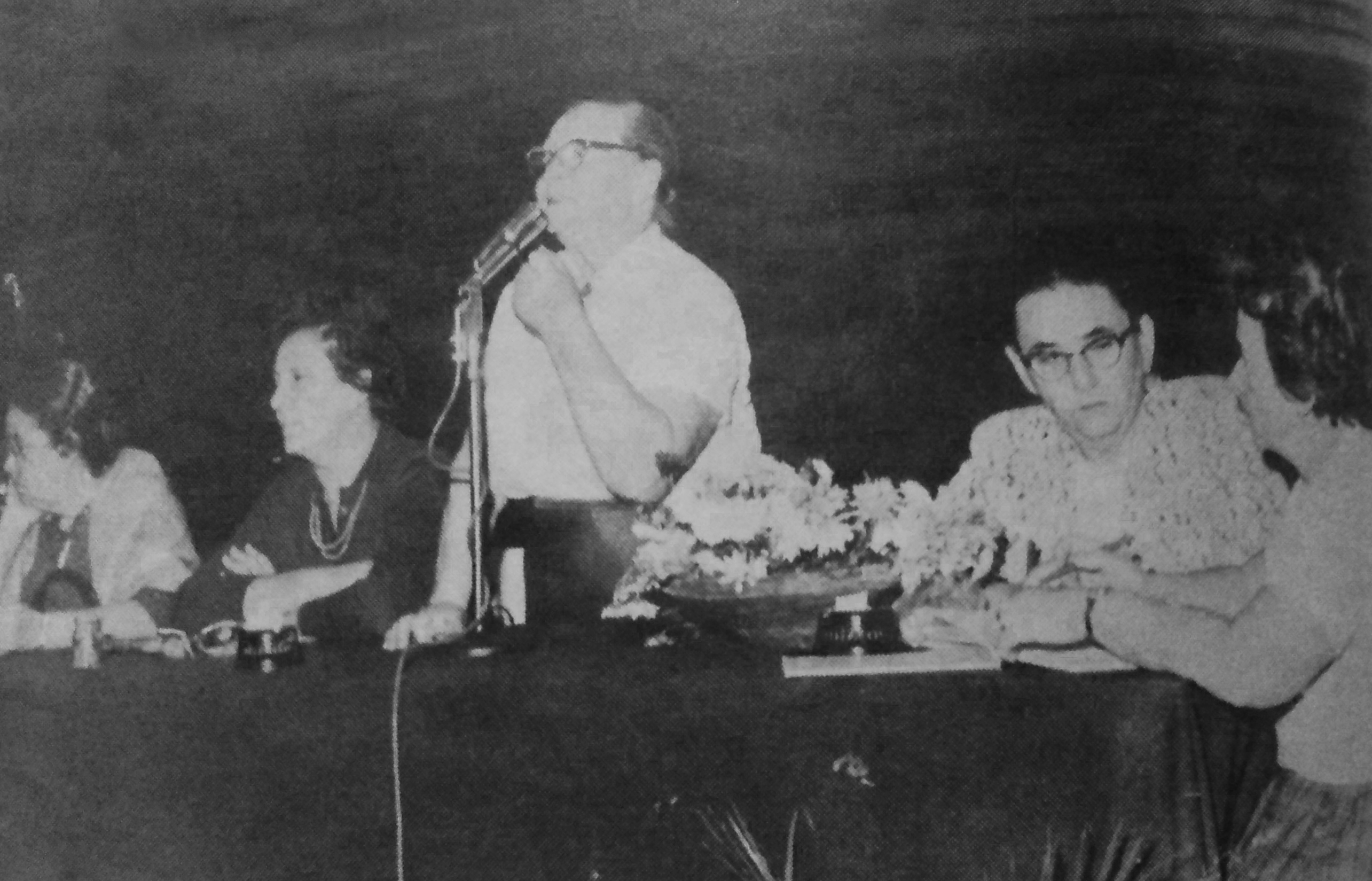 Hasya in the "Poalon" Conference